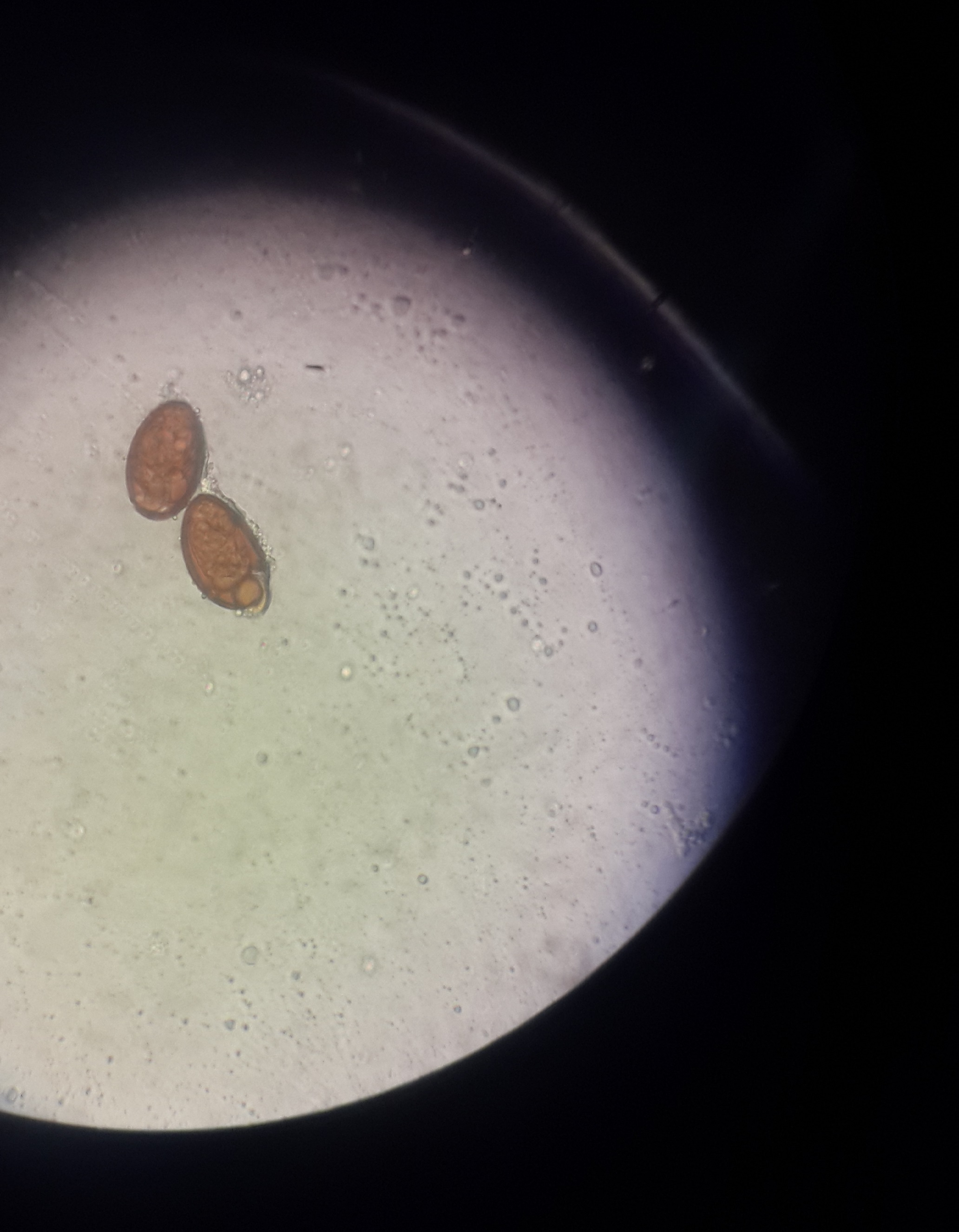 تخم دیکروسلیوم دندرتیکوم